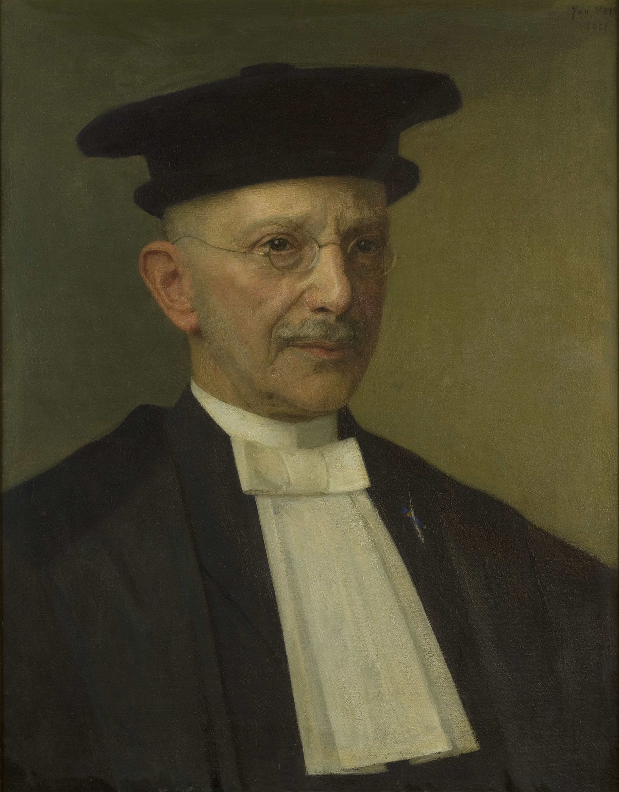 Barend Symons (1853-1935), professor German and English at Groningen University